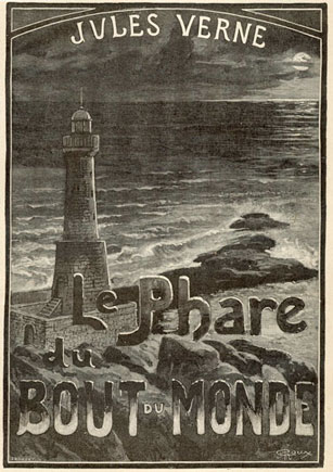 Ilustration George Rouxe to novel J. Verne "The Lighthouse at the End of the World".